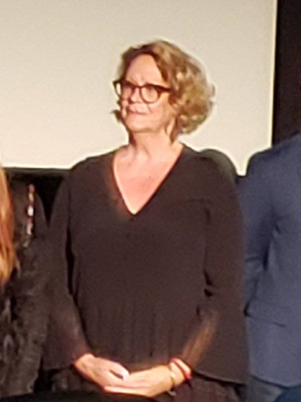 Shelley Thompson at a Q&A for Splinters at Scotiabank Theatre in Toronto, Ontario, Canada